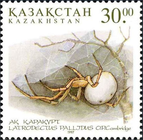 Stamp of Kazakhstan